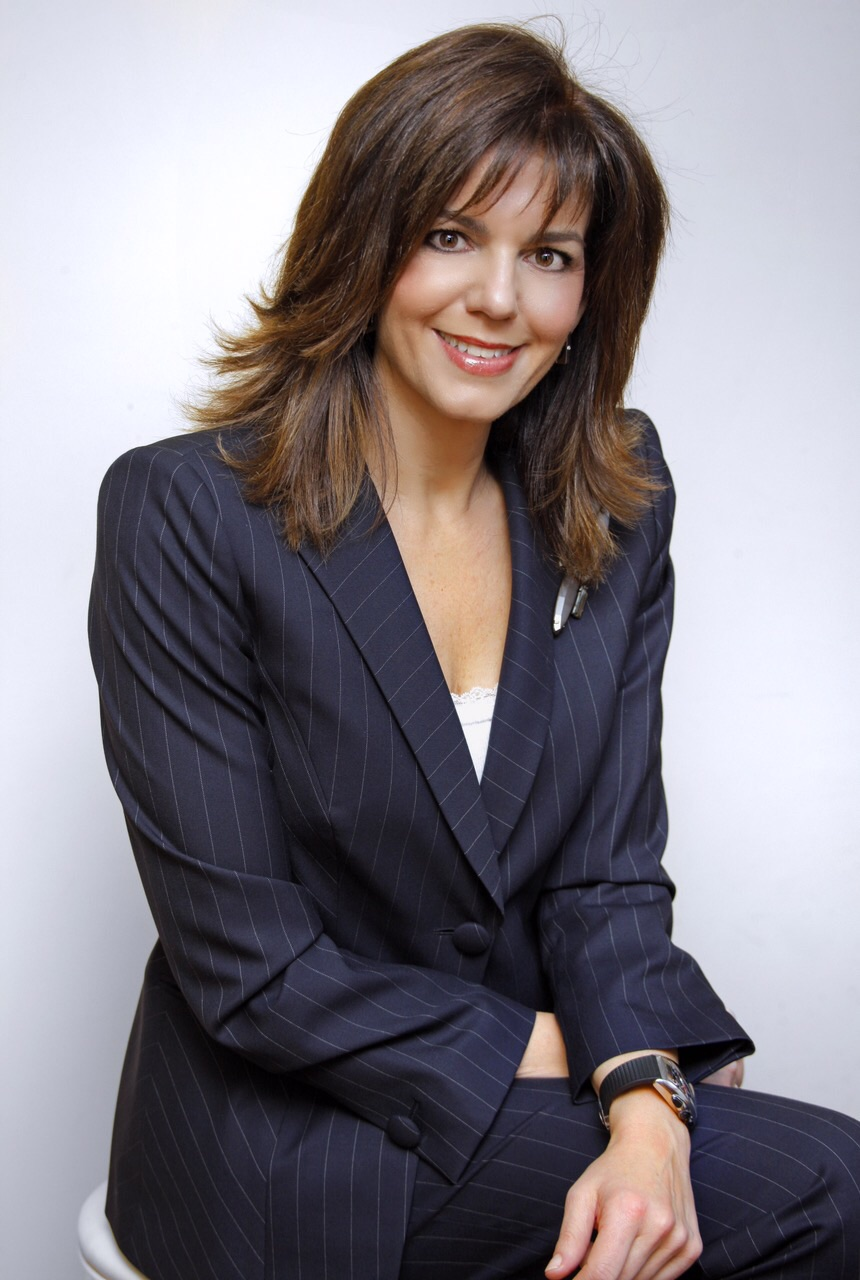 Amparo Moraleda Martínez